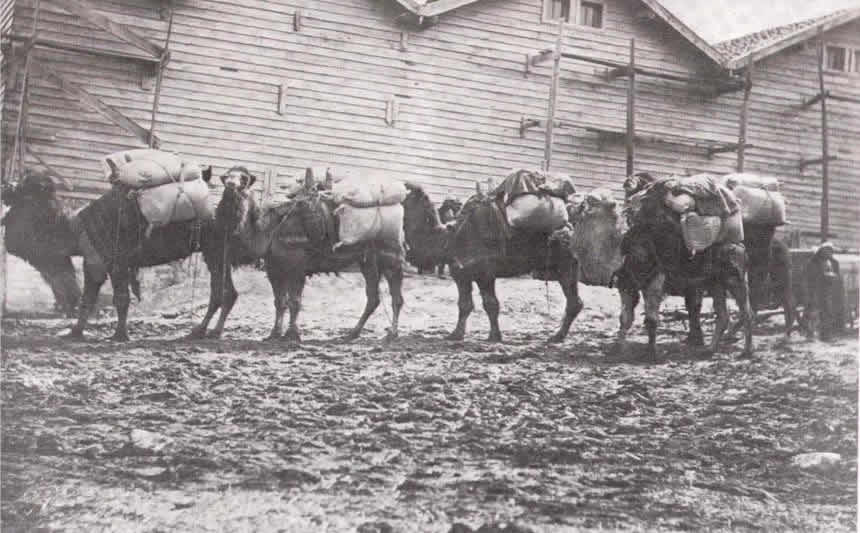 Camels in Turkey moving Pandermite in the 1880s.